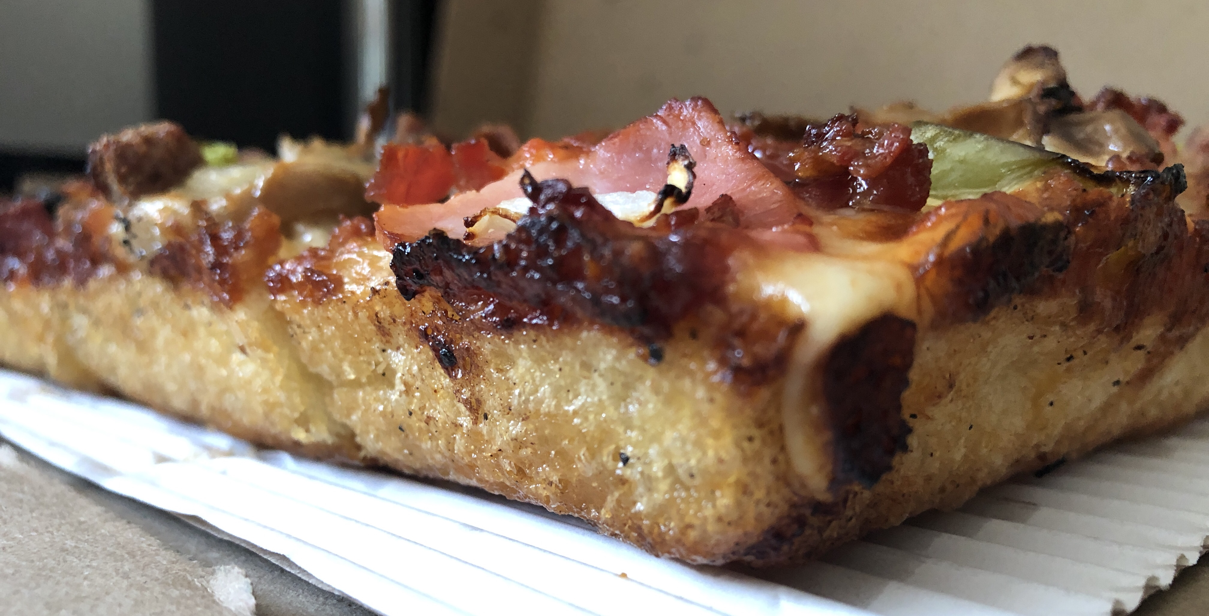 Close-up of Detroit-style pizza slice